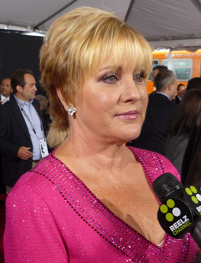 Lorna Luft in May 2010.